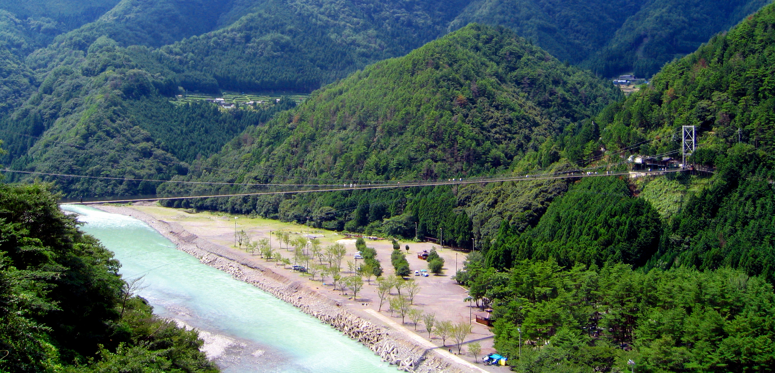 This picture is Taniseno tsuribashi.It is in Japan,nara,Totsukawa.